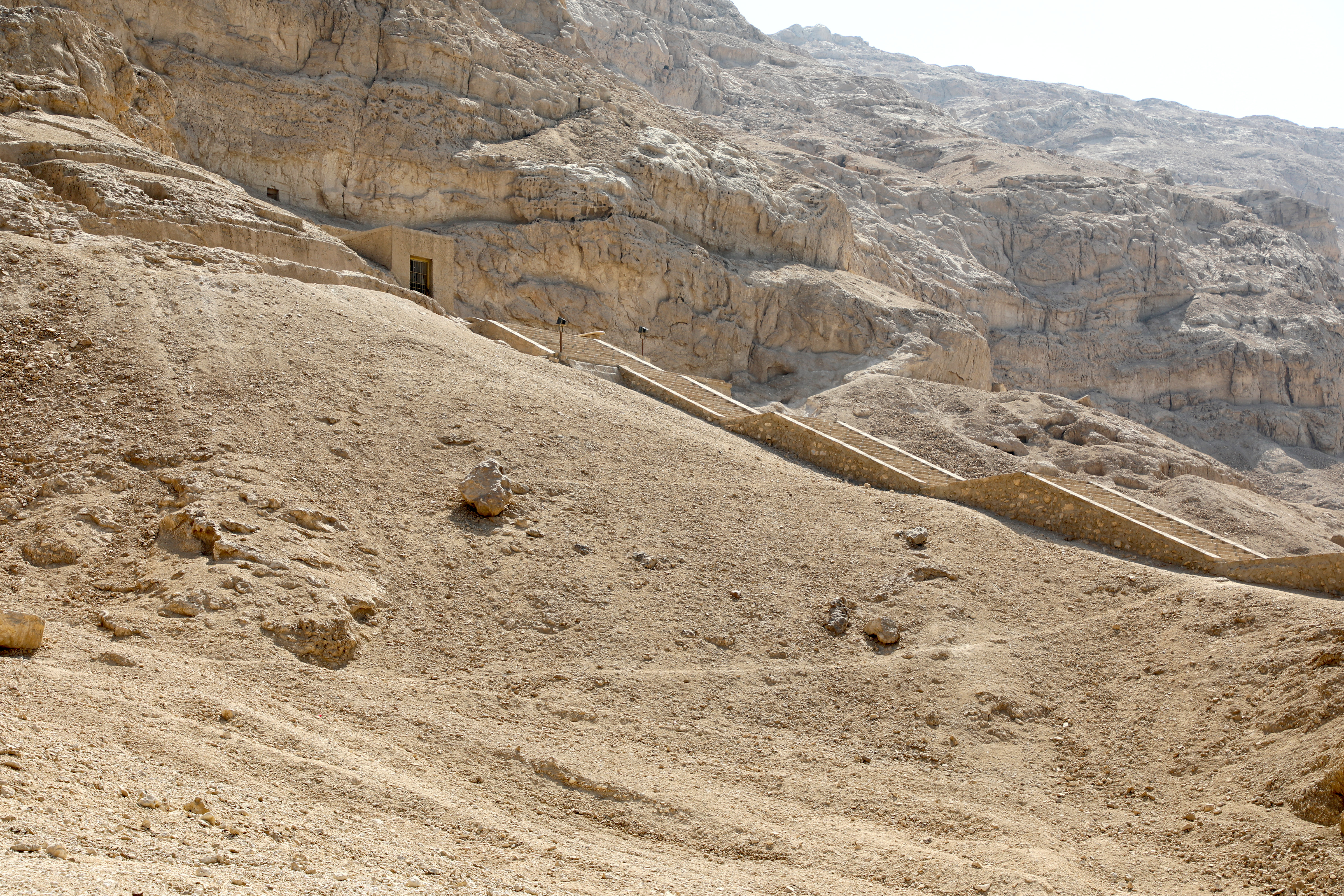 Staircase to the A group tombs at the al-Hammamiya necropolis, C group tombs behind the staircase, Egypt